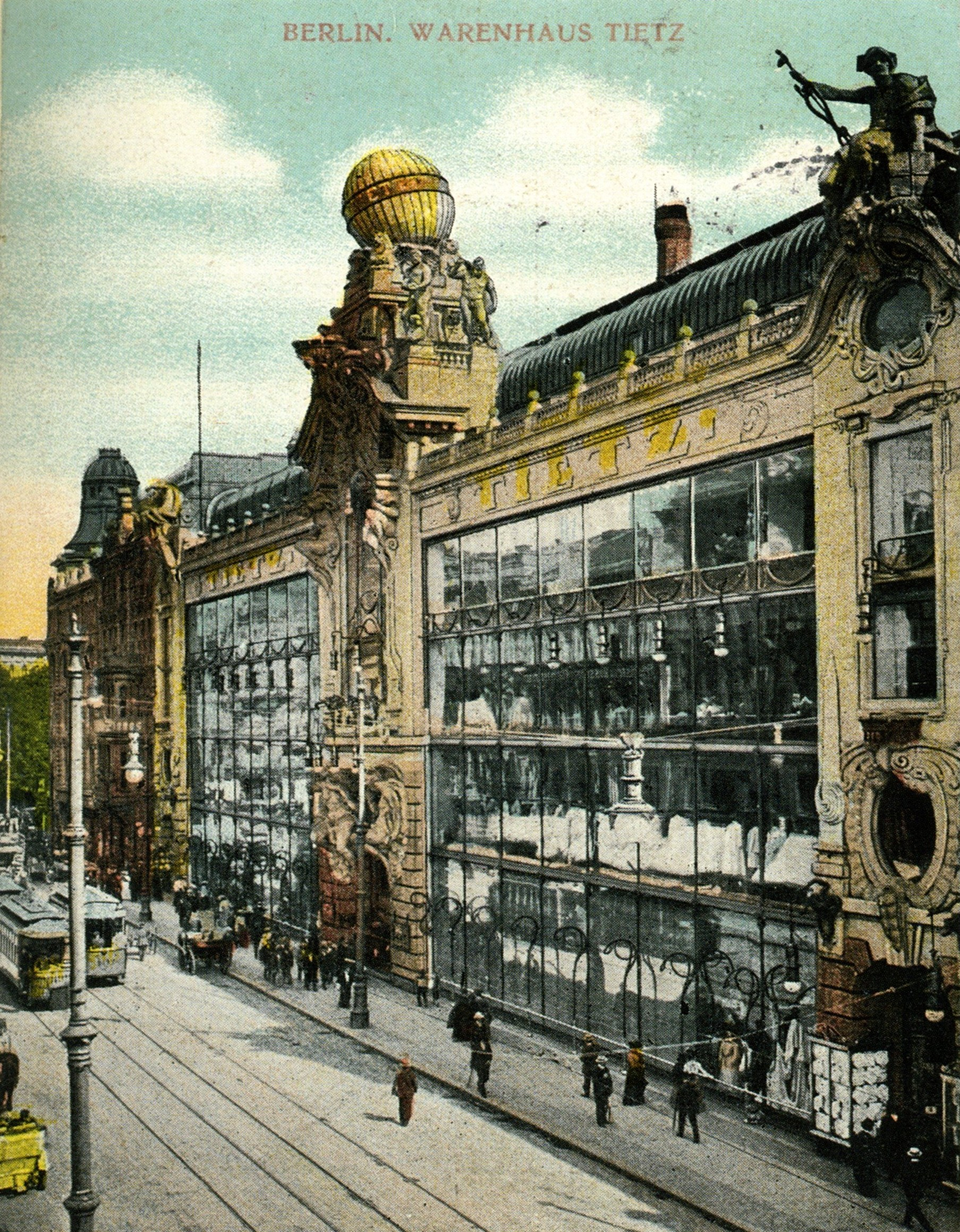 department store Tietz in Berlin, Leipziger Straße 46-49, built 1899-1900, destroyed in 1944 (coloured picture postcard)